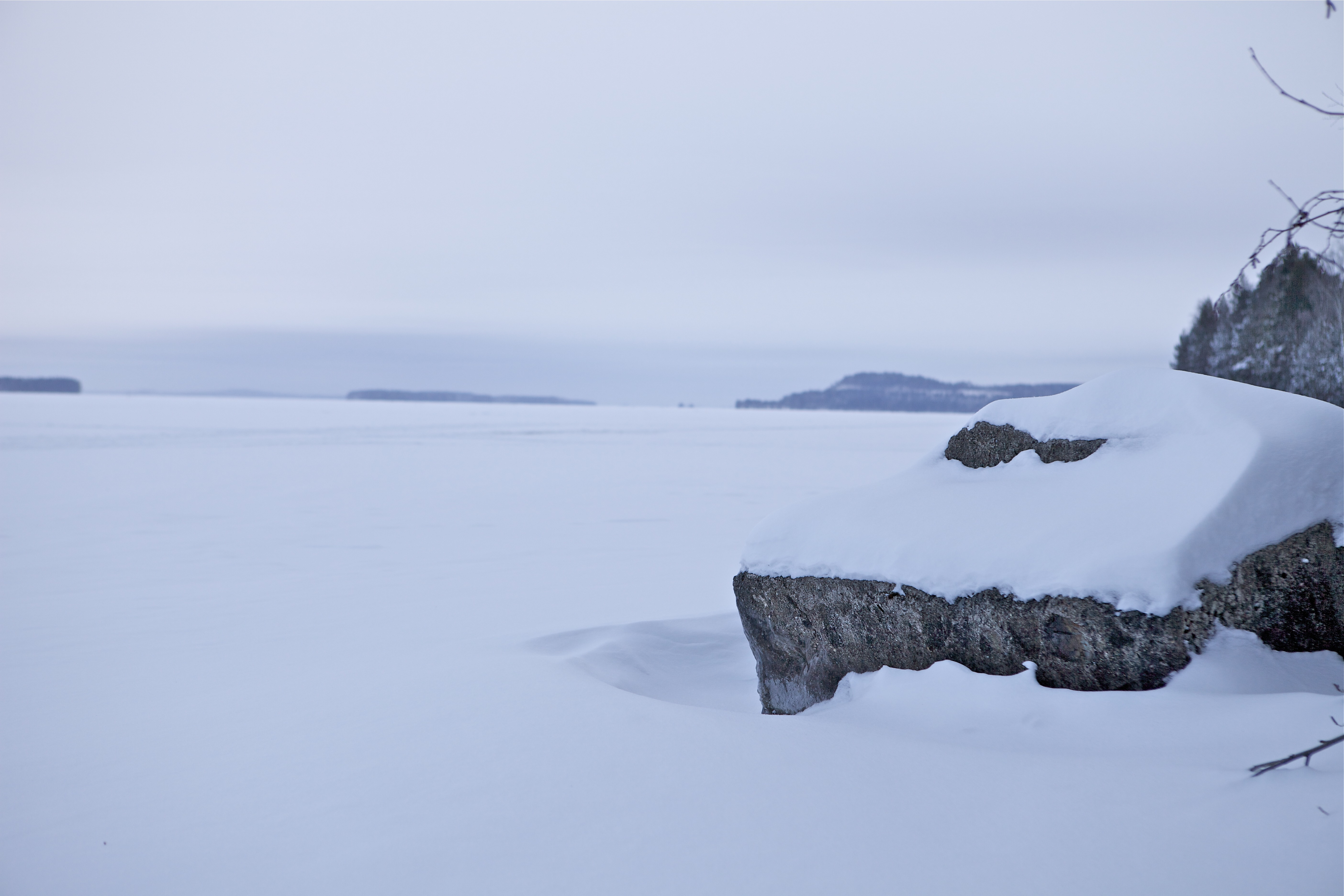 Frozen lake Höytiäinen, My favorite snap this year. Worth braving frostbite! Polvijärvi